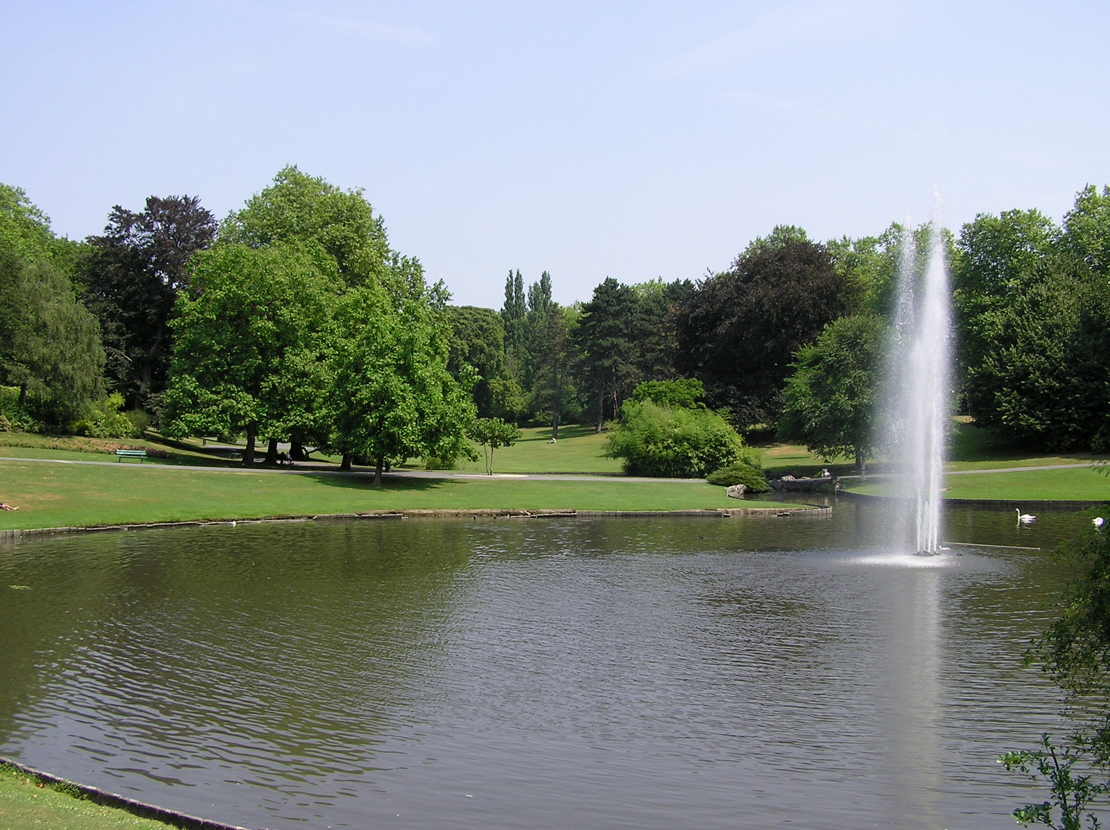 The parc Barbieux in the south of Roubaix, France